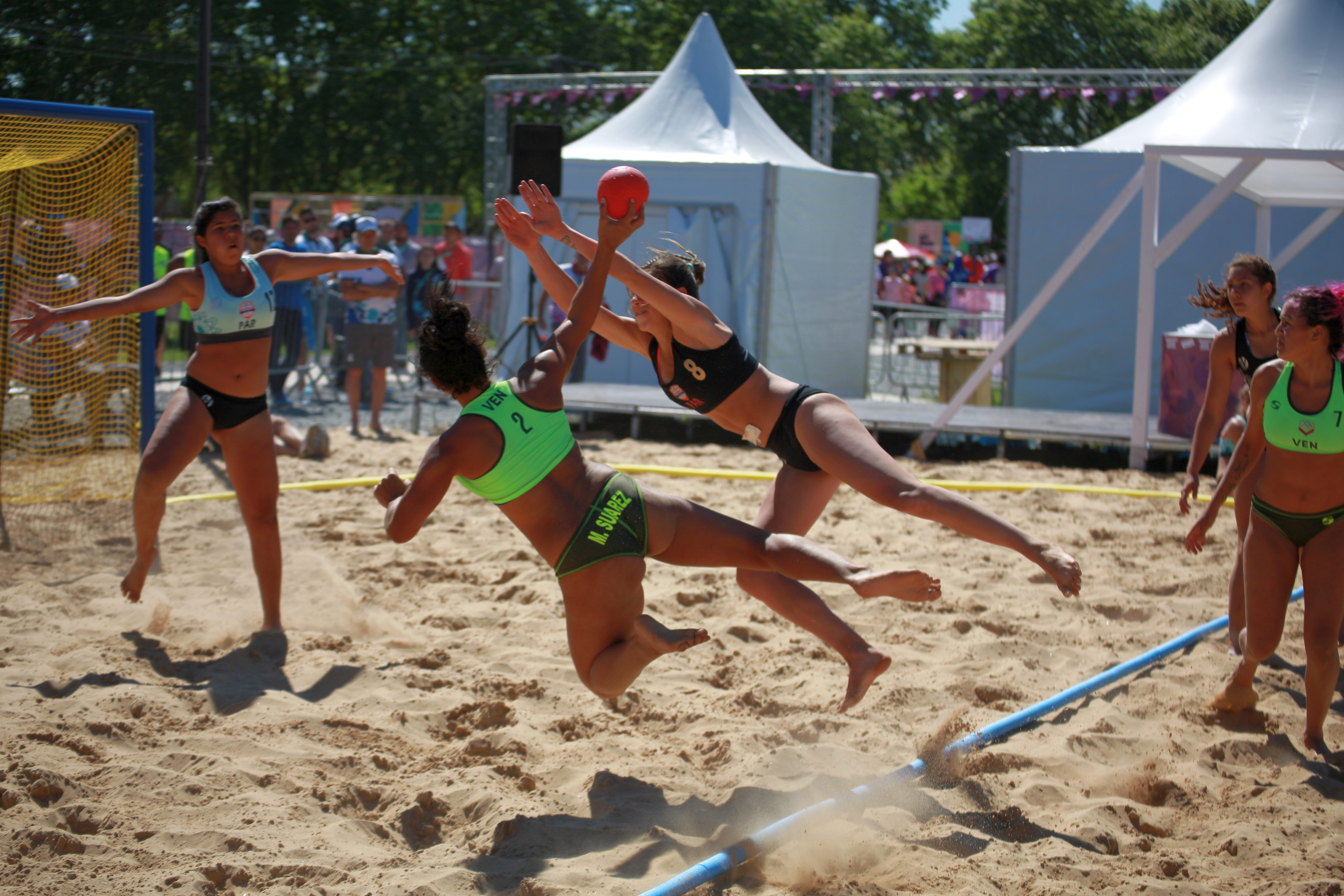 Beach handball at the 2018 Summer Youth Olympics at 10 October 2018 – Girls Preliminary Round Group A - Venezuela-Paraguay 1:2